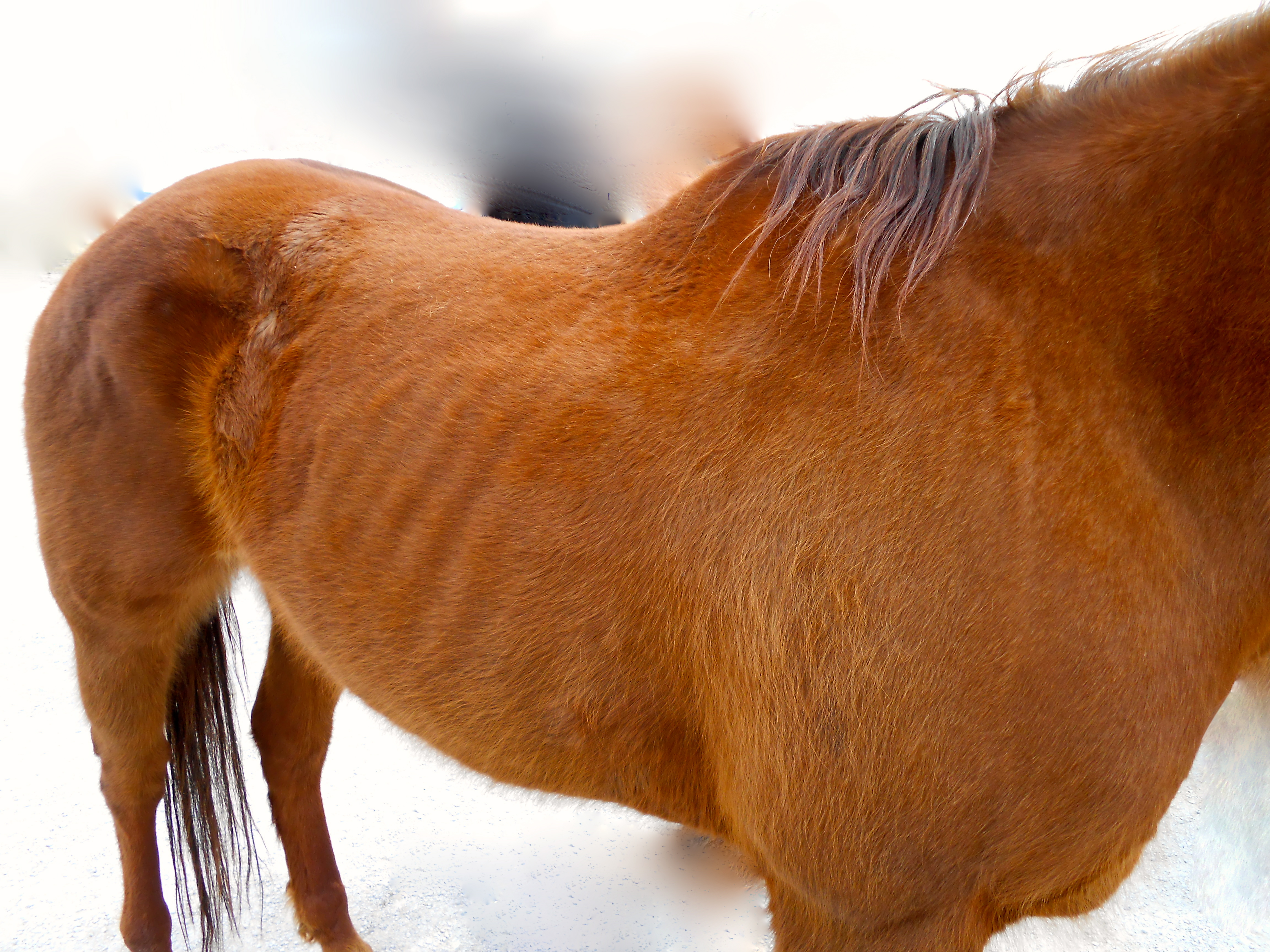 Older horse thin at the end of winter, scoring a 3 on the Henneke horse body condition scoring system. Blurred image was of an identifiable person (the veterinarian assessing the horse's condition at a public event in a seminar open to the public for which the hors was voluntarily presented by its owner)